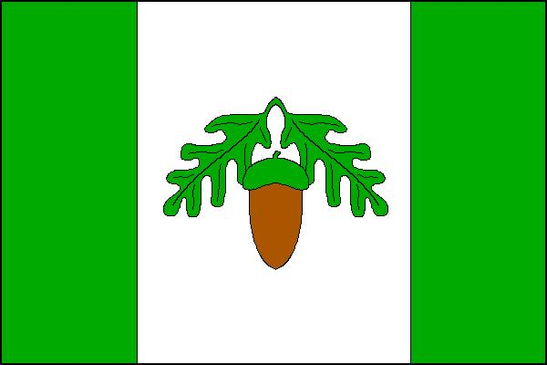 Municipal flag of Ostrovánky village, Hodonín District, Czech Republic.